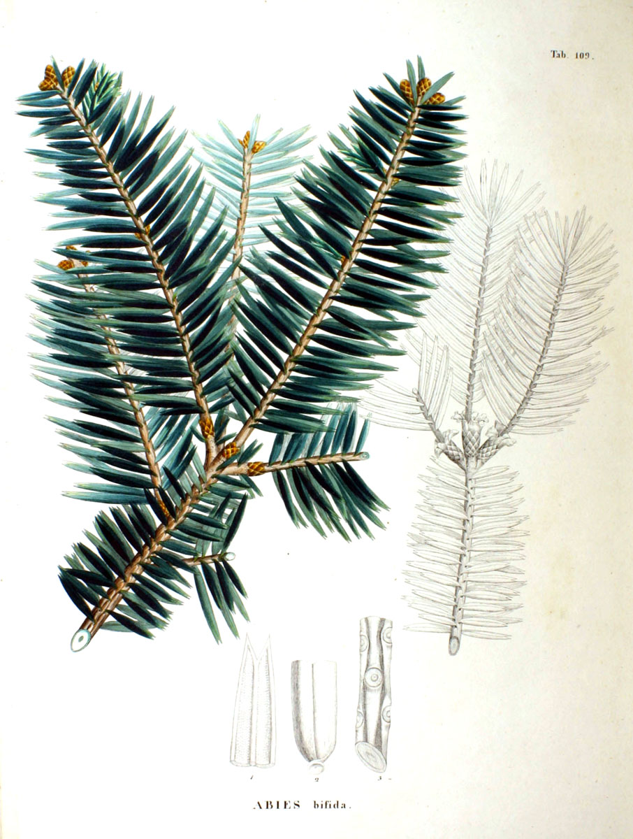 Plate from book